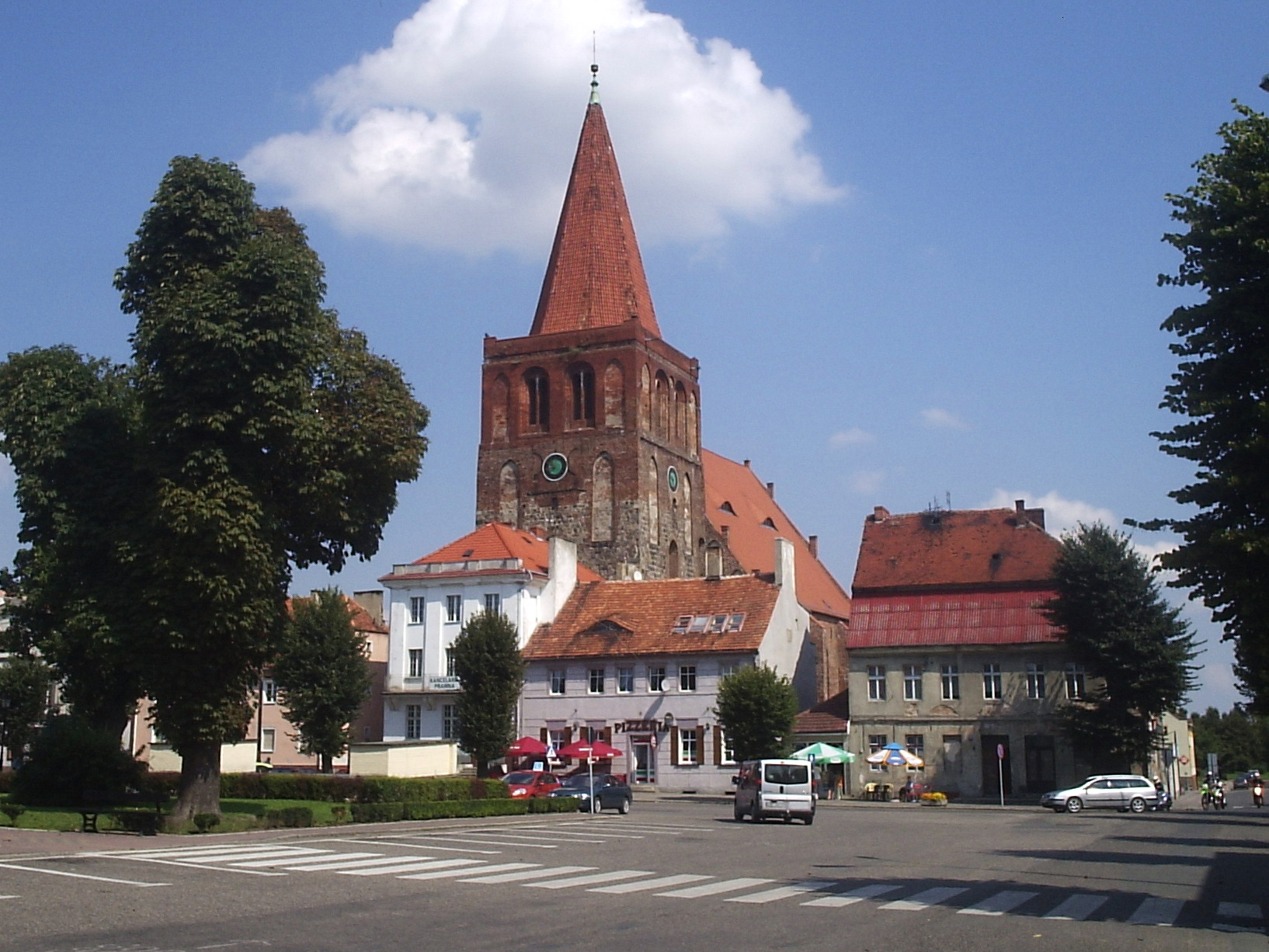 Myślibórz, Poland